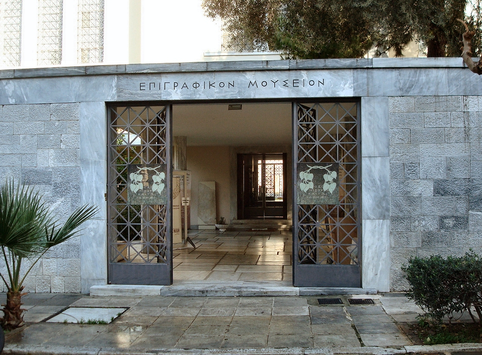 The entrance of the Epigraphical Museum, which is at the right wing of the Archaeological Museum of Athens.